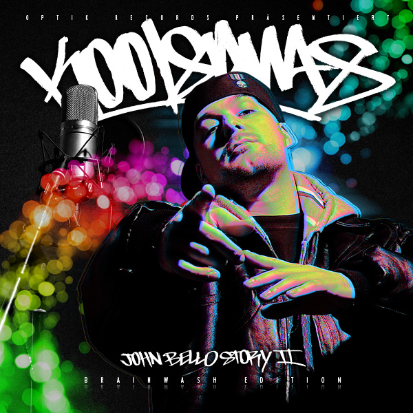 Cover des Albums „Die John Bello Story II – Brainwash Edition“